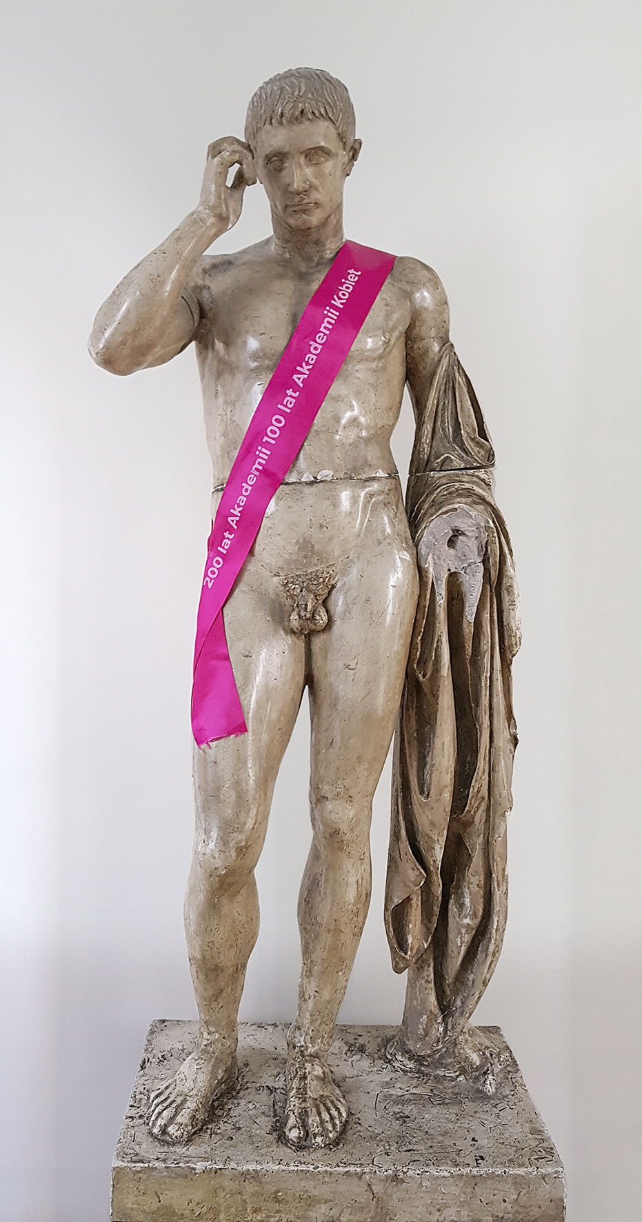 The pink ribbon with the text "200 year of the Academy, 100 years of Women's Academy" on one of the sculptures from the Academy building.